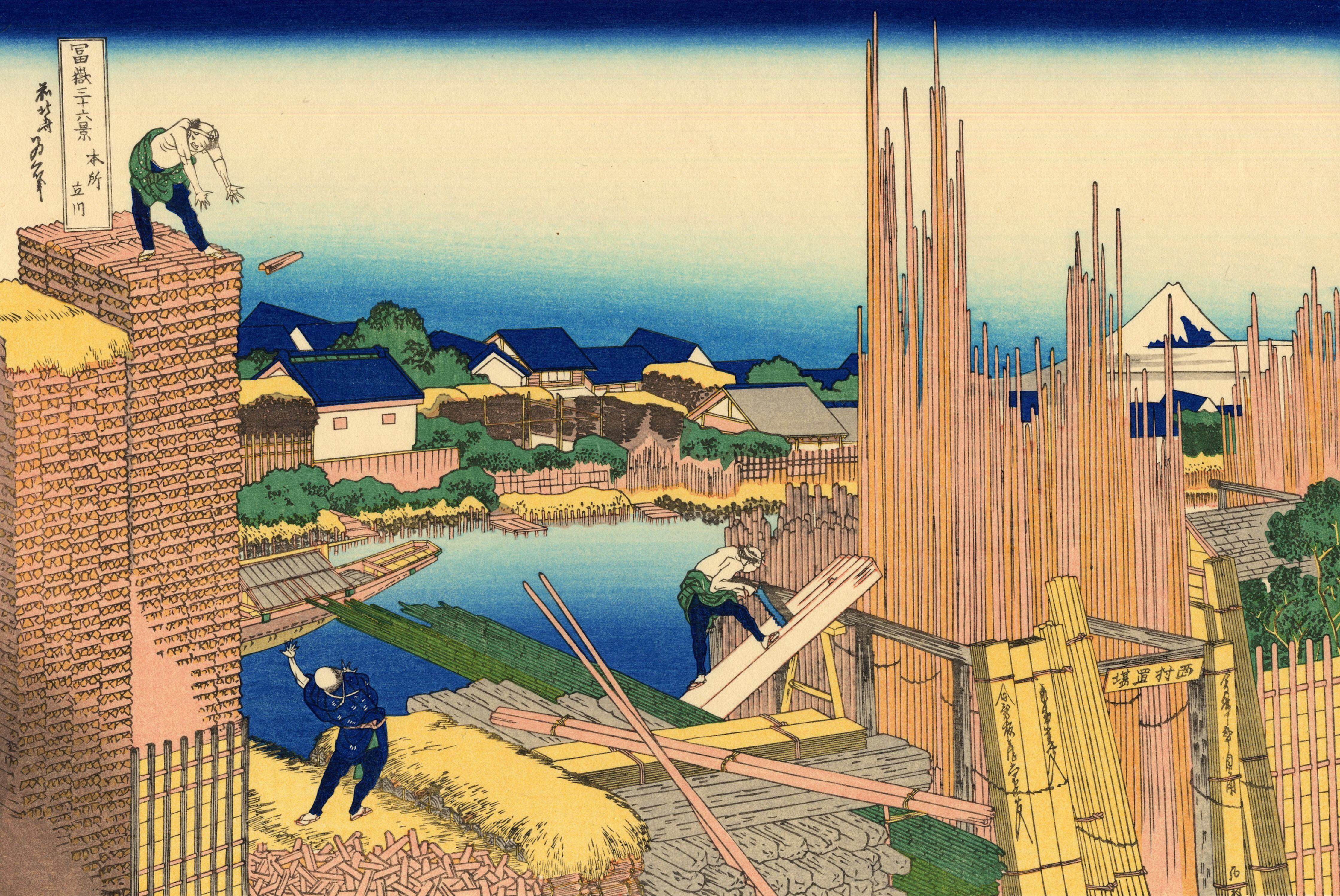 Part of the series Thirty-six Views of Mount Fuji, no. 05.